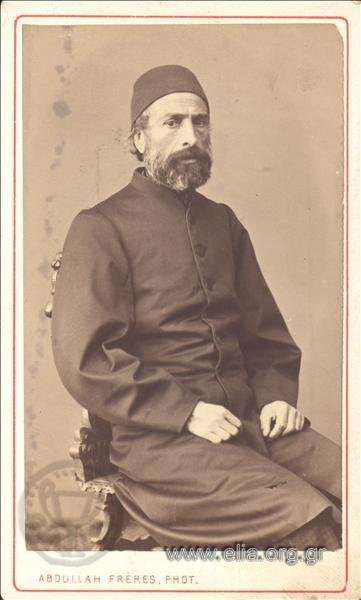 İbrahim Edhem Pasha (1819 – 1893) was a Ottoman statesman of Greek origin who held the office of Grand Vizier between 1877 and 1878.